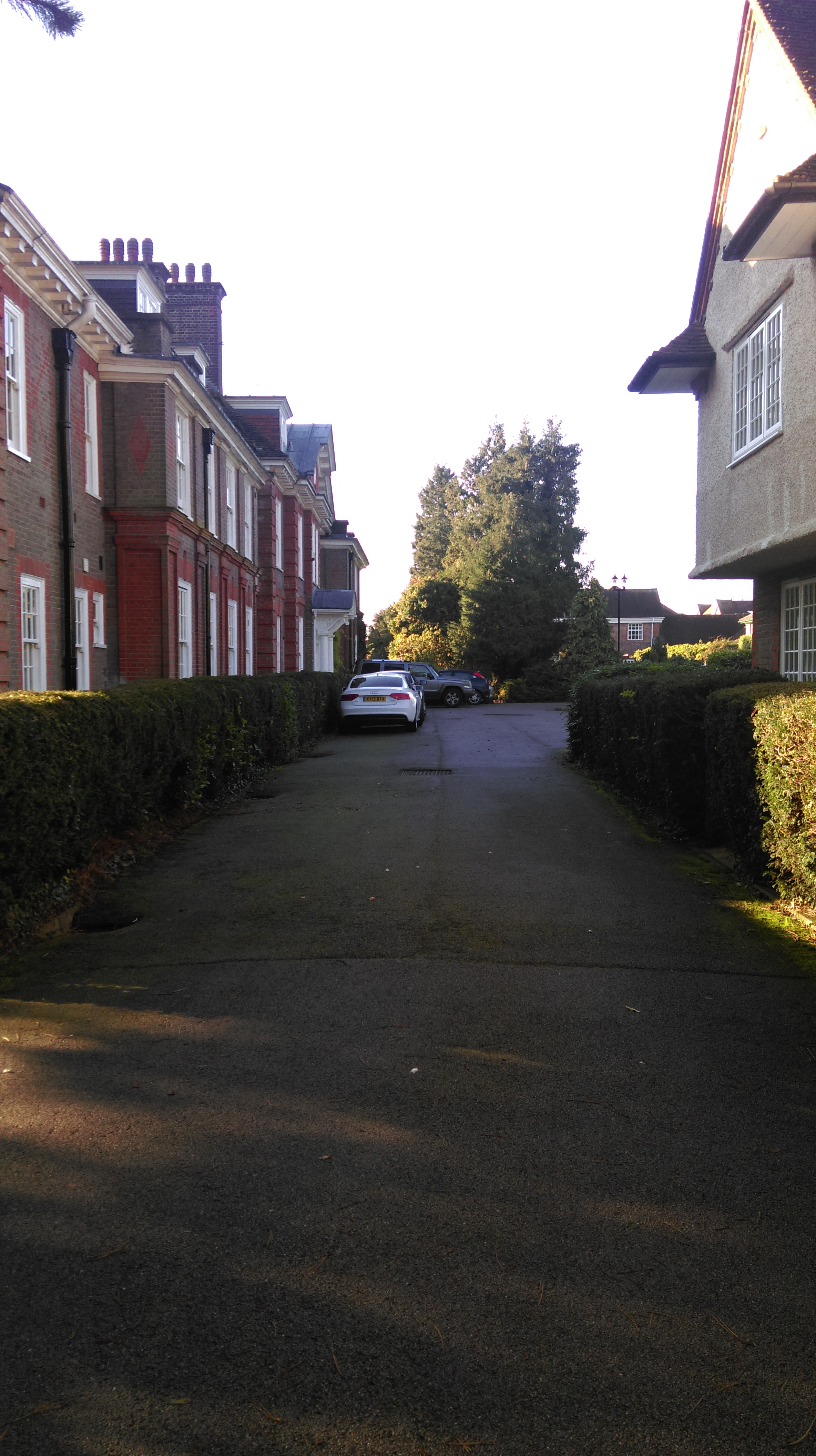 Photo of Castle Village, Berkhamsted - a Grade II Listed Building